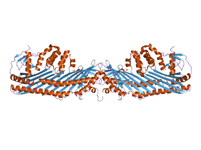 Cartoon representation of the molecular structure of protein registered with 1izn code.